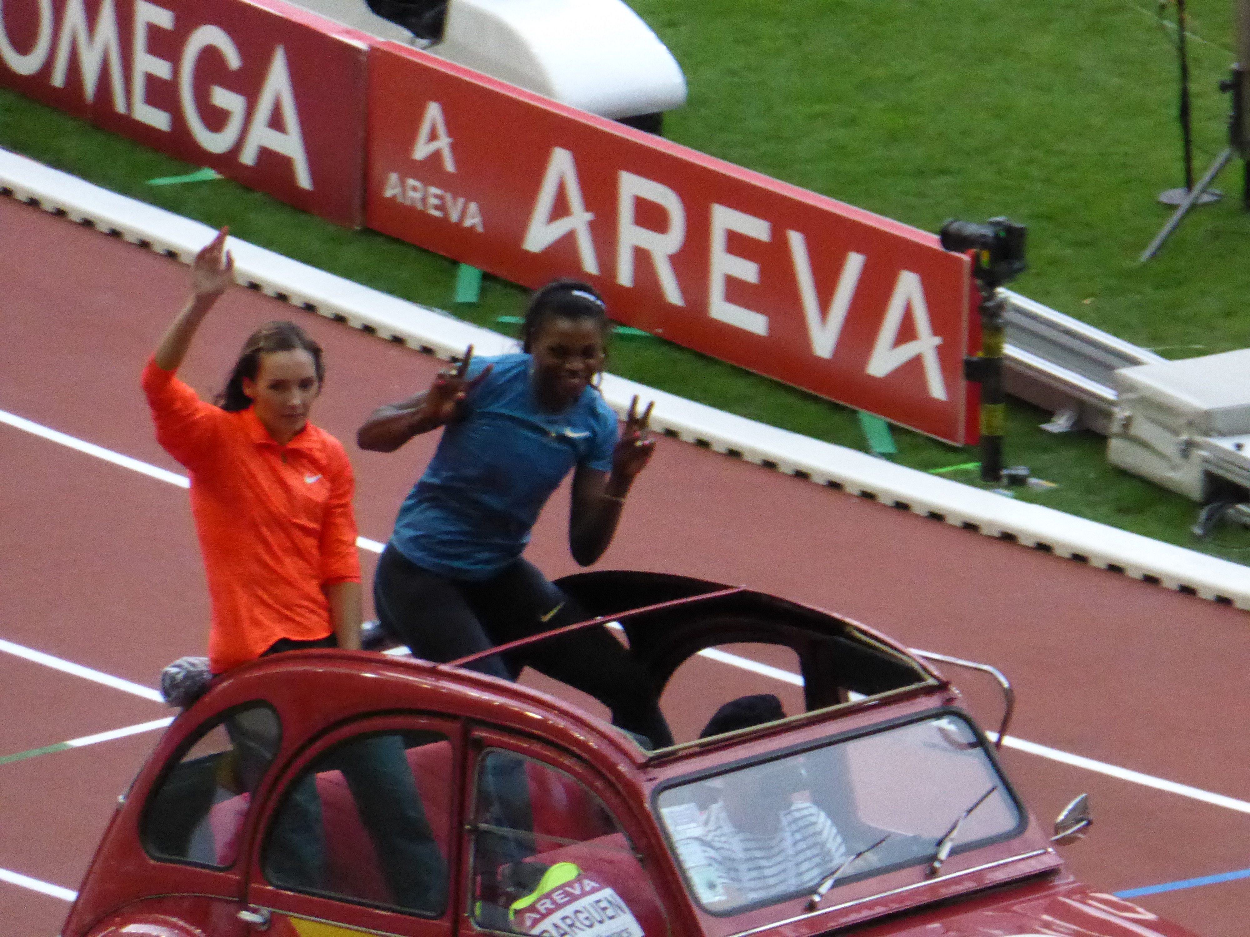 2015 Meeting Areva, Stade de France, Paris.